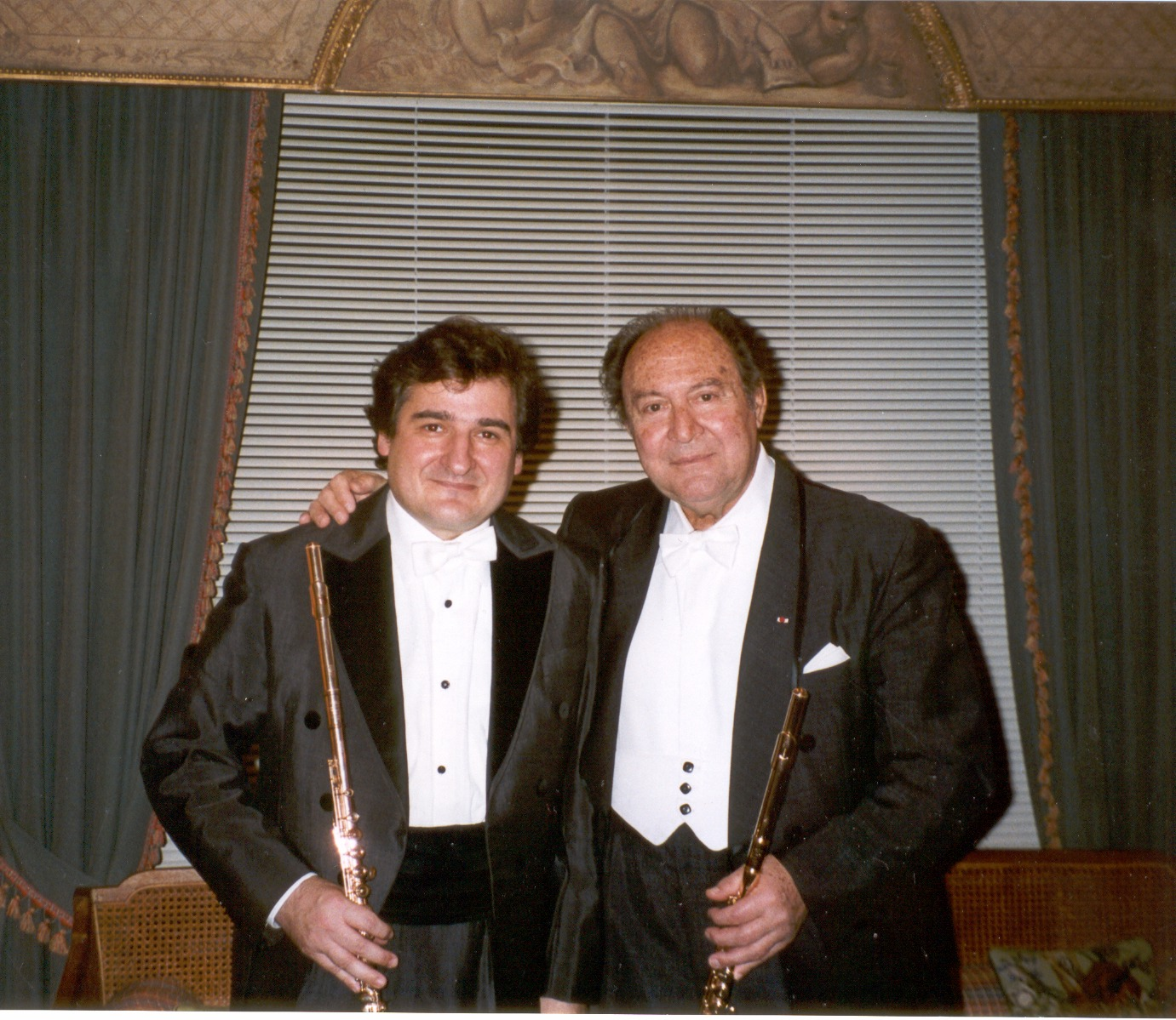 Claudi Arimany (left) & Jean Pierre Rampal (right)